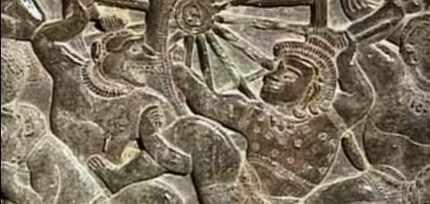 Khmer bas-relief of Angkor temple